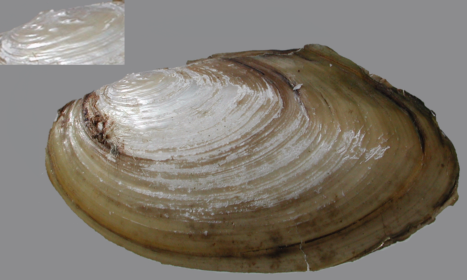 Depressed river mussel (Pseudanodonta complanata). Left valve, outside view. Semi-adult specimen, Length: 44.5 mm. Washed ashore at Lake IJssel near the 'Poelsluis' ('Pond Sluice'), South of the town of Monnickendam. 1972 (Private collection T.M.). With inset: enlarged umbonal area showing the rugae.